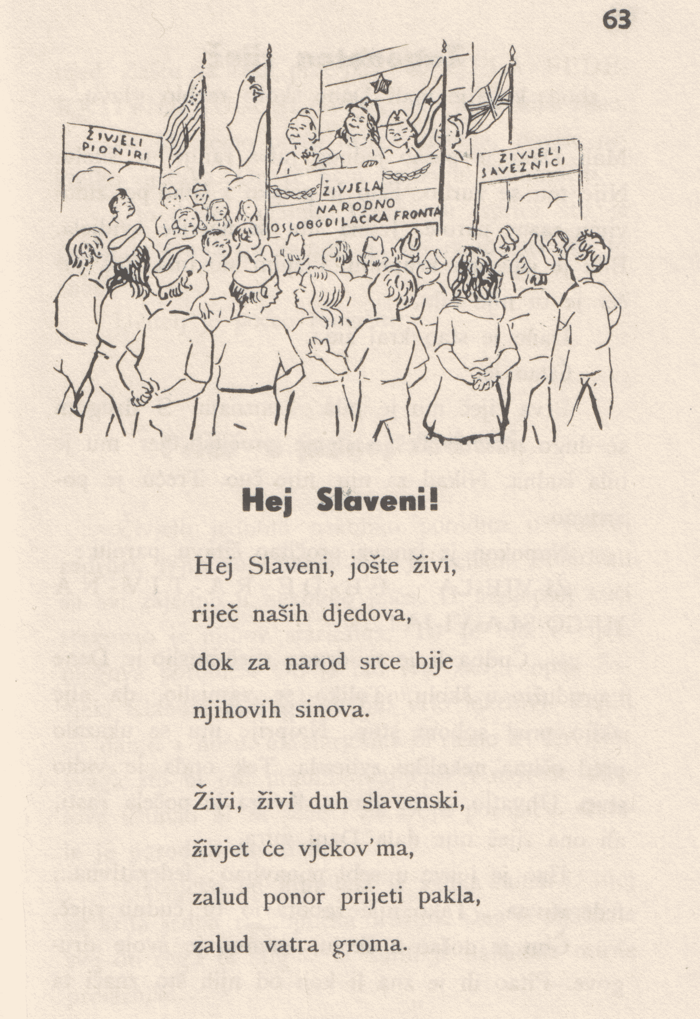 The poem that would become the Anthem of the Socialist Federal Republic of Yugoslavia, its Croatian language version.